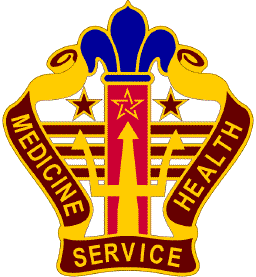 Institute of Heraldry